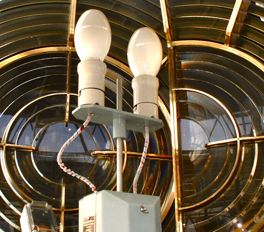 Detail view of lampchanger at Maughold Head Lighthouse, Isle of Mann